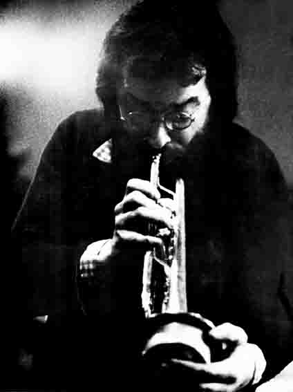 A young Kid Bastien